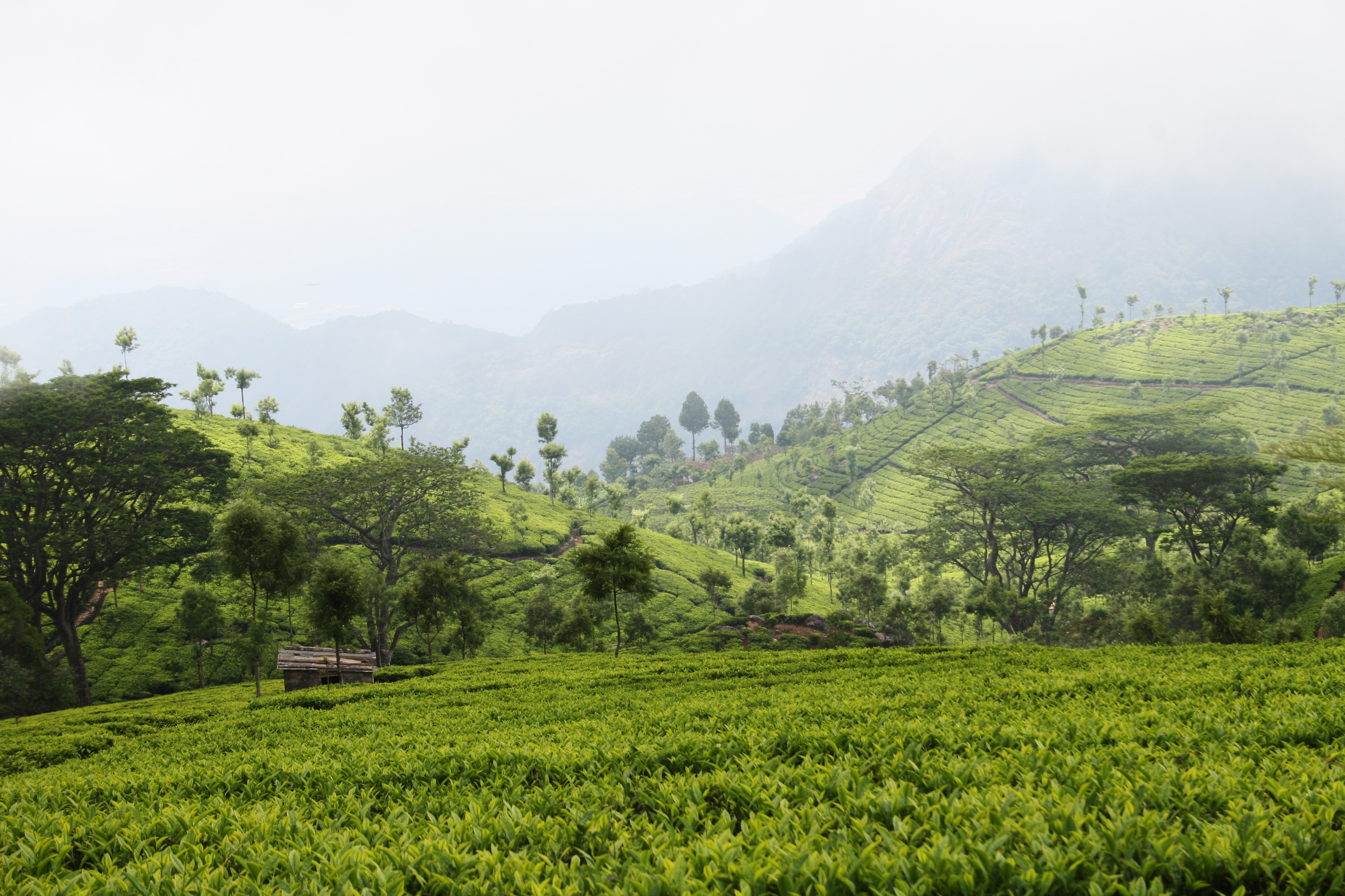 Tea Gardens at Nilgiri Hills, Tamil Nadu, India